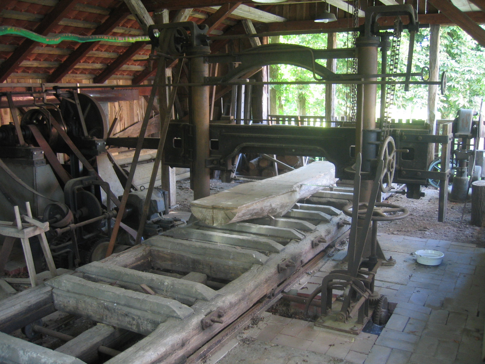 Hiddenhausen Castle in Hiddenhausen, District of Herford, North Rhine-Westphalia, Germany.